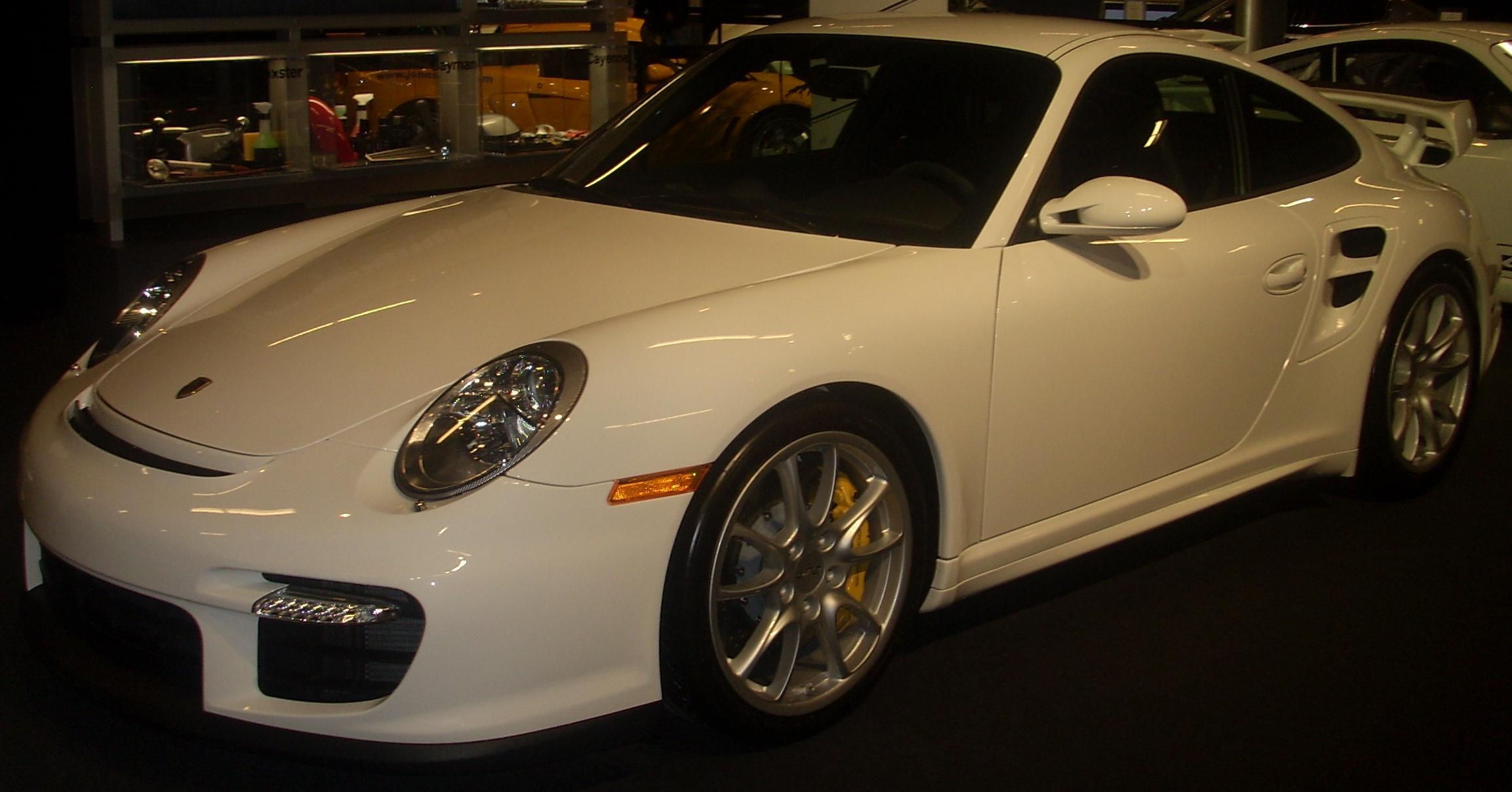 2009 Porsche 911 GT2 photographed at the 2009 Montreal International Auto Show